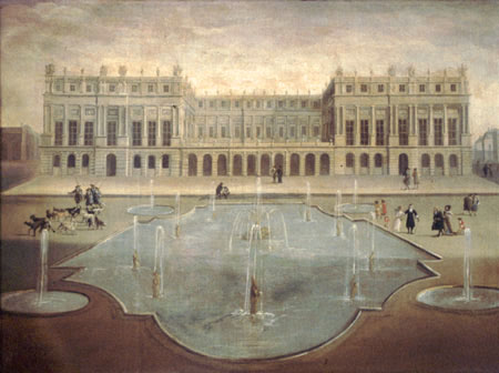 The west facade of Versailles before the construction of the hall of mirrors.